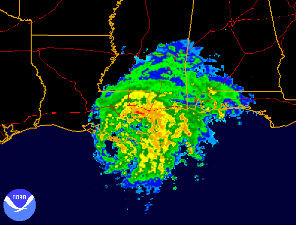 This is a radar image of Tropical Storm Bill, 2003, from NWS New Orleans NEXRAD radar and was made using JAVA NEXRAD tool.